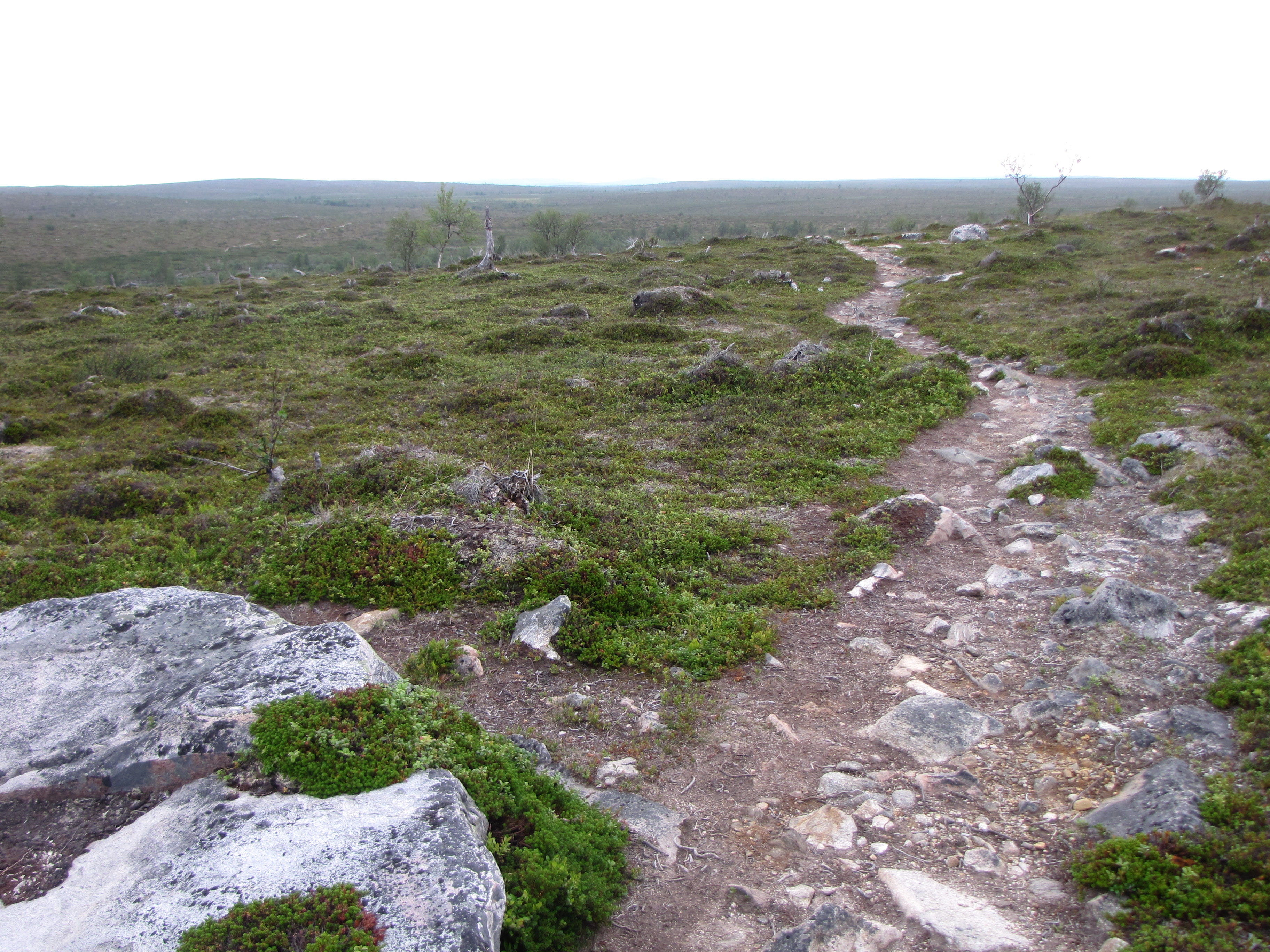 Fell heath in (or near?) Kevo Strict Nature Reserve, Utsjoki, Finland. The landscape is at the tree line, tiny fell birch are the only trees, but some trunks show there have been bigger trees. Probably this is one of the areas where the autumnal moth (Epirrita autumnata) killed fell birch in the 1960s.